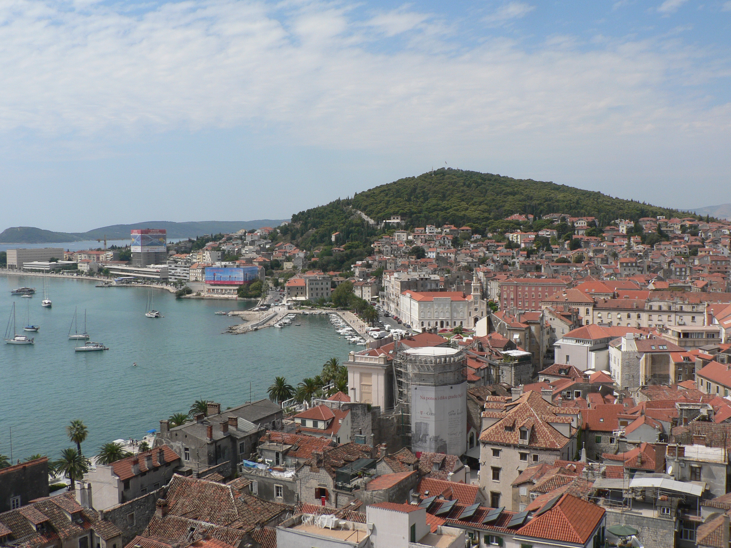 Split and the Marjan Peninsula from the Split Cathedral Tower.